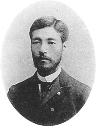 J. Sakurai, Professor of Chemistry.